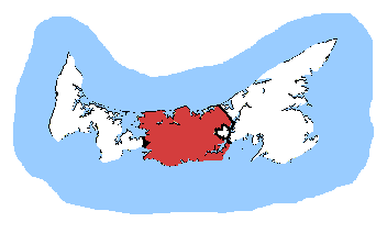 Map of the Malpeque electoral district. Based on Earl Andrew's maps, created by SimonP.